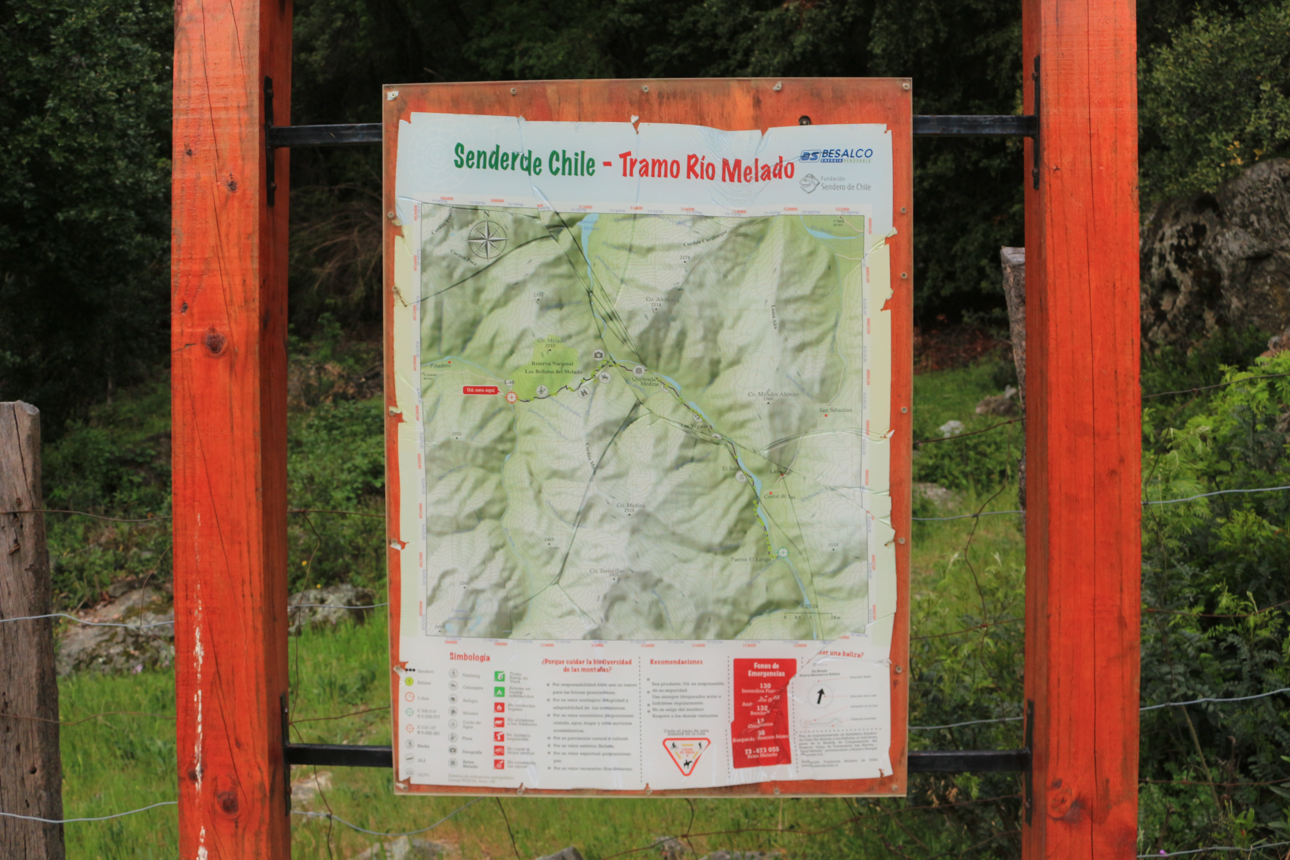 Trekking in Chile.